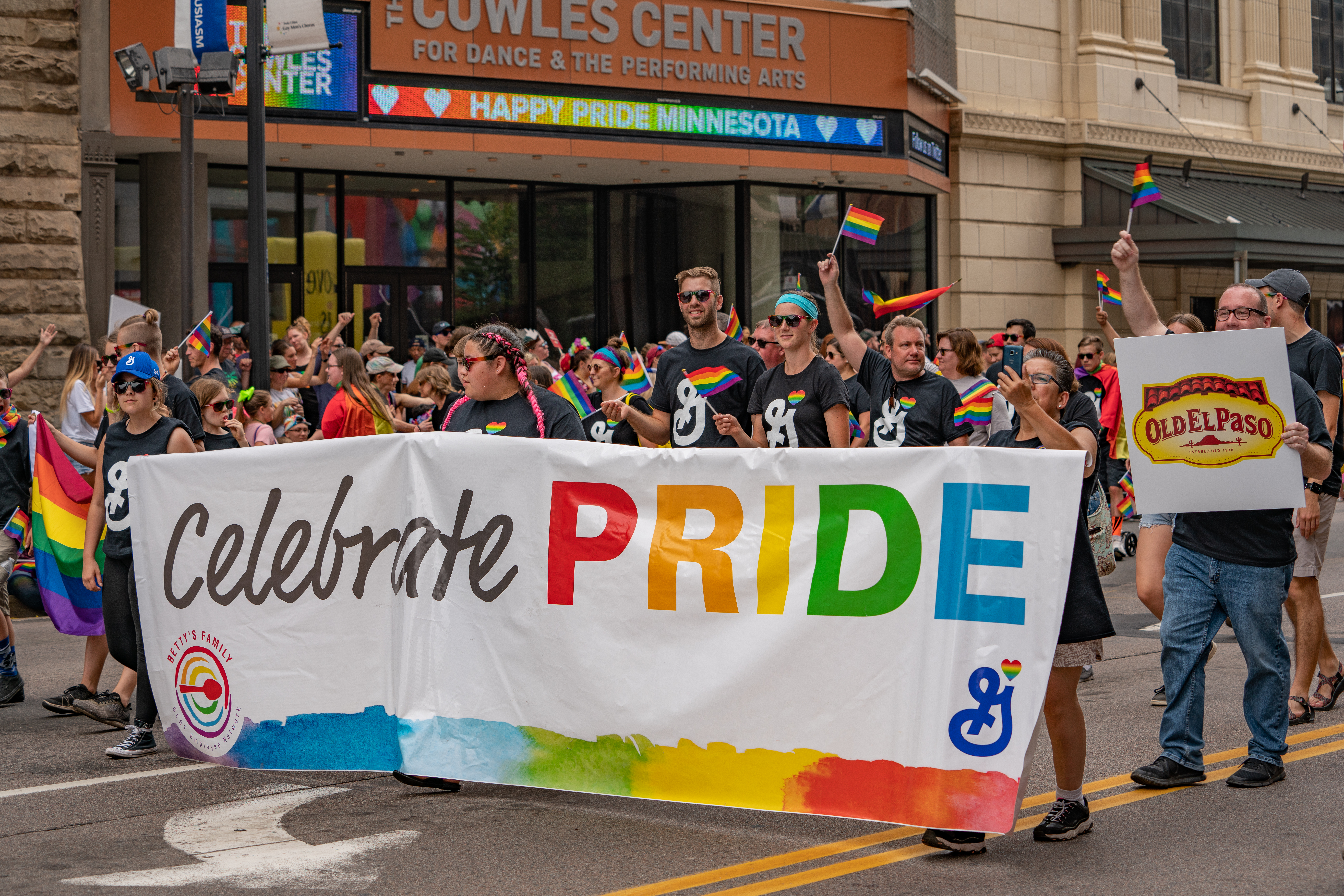 Twin Cities Pride Parade in Downtown Minneapolis, Minnesota, on June 24, 2018.